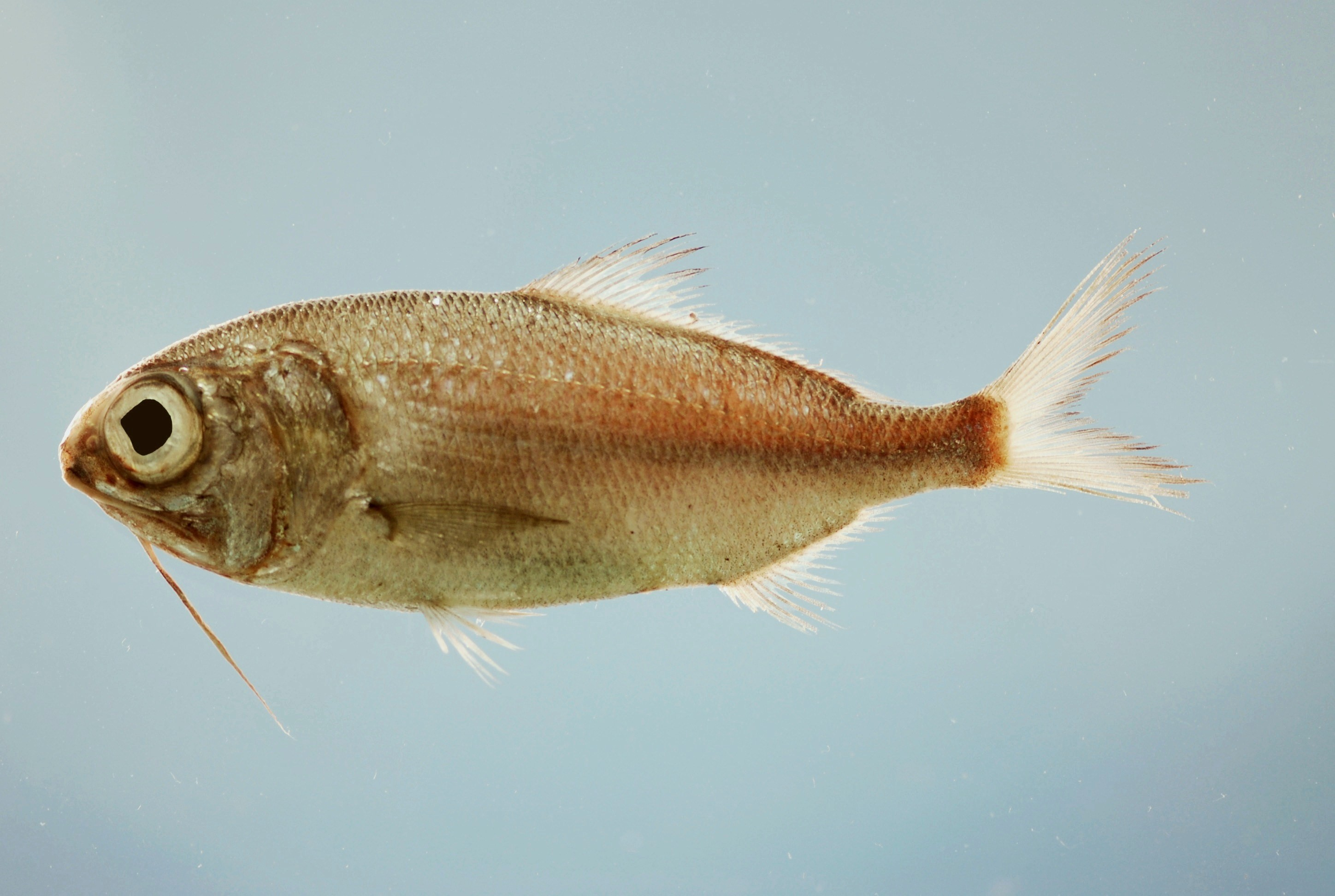 Beardfish ( Polymixia lowei ). Gulf of Mexico.